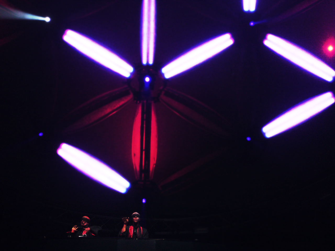 Project One live at Qlimax 2008